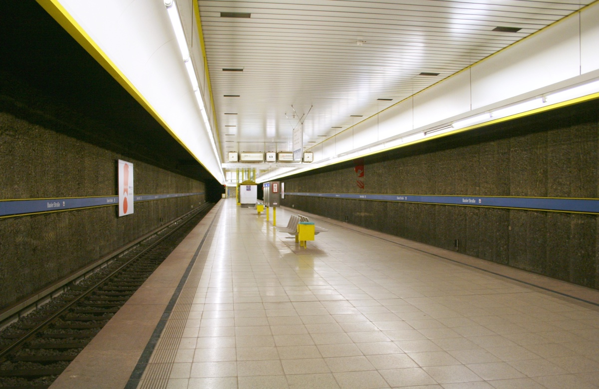 Munich subway station Basler Straße